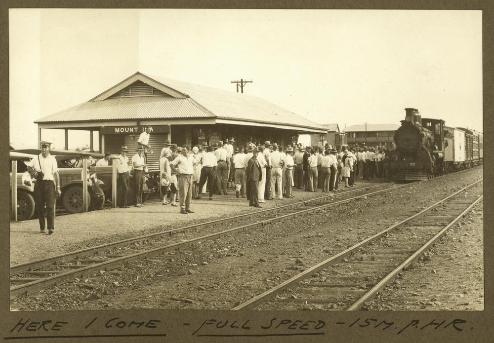 Waiting for the train at Mount Isa Station, 1931.